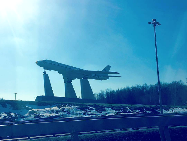 On the way to Vnukovo airport